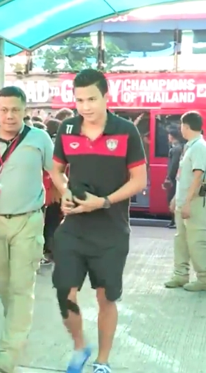 Thitipan Puangchan before game Thai Premier League Ostospa Saraburi - Muangthong United